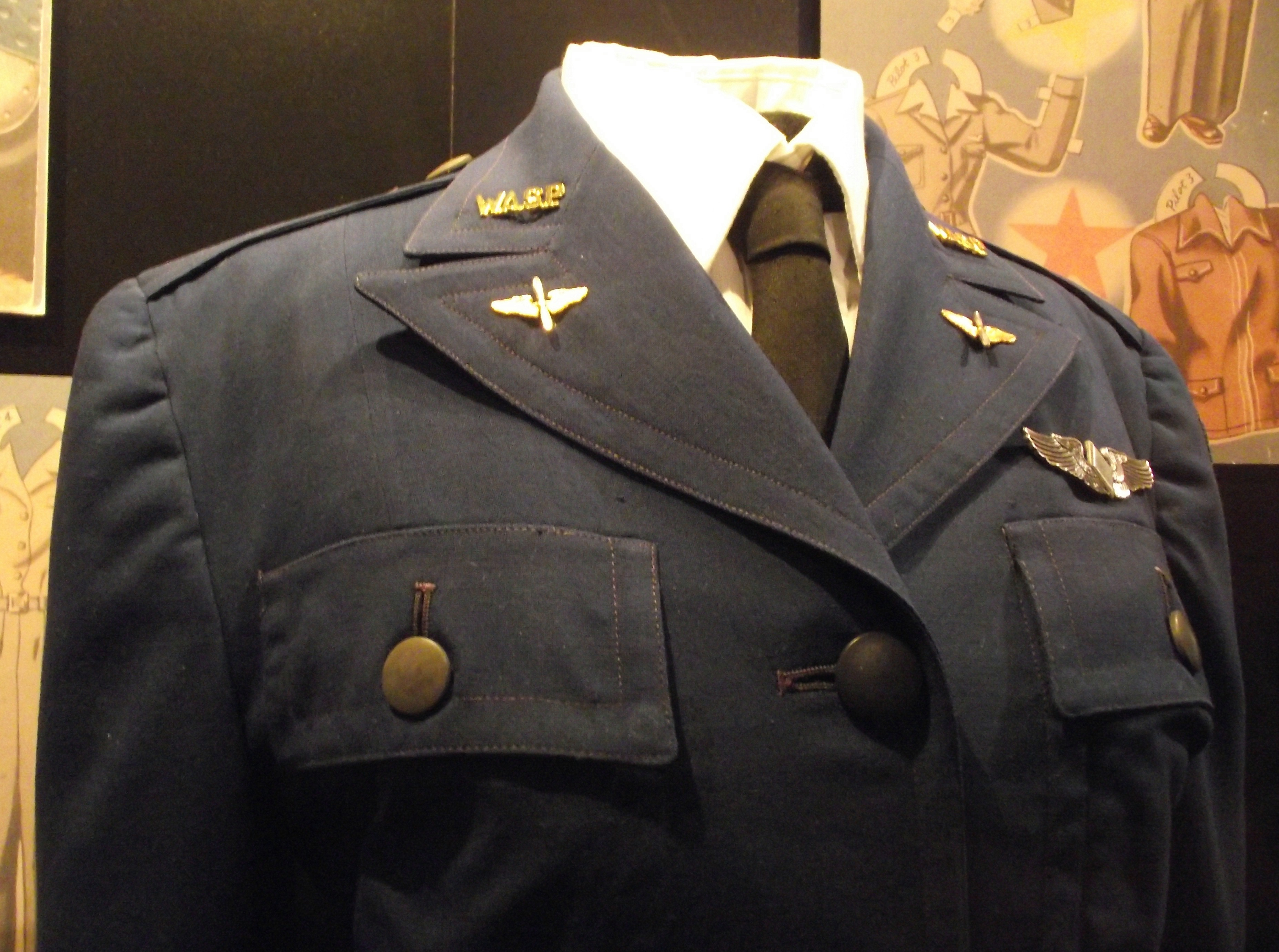 WASP uniform circa 1944 in the Museum of Flight, Seattle, Washington, USA.